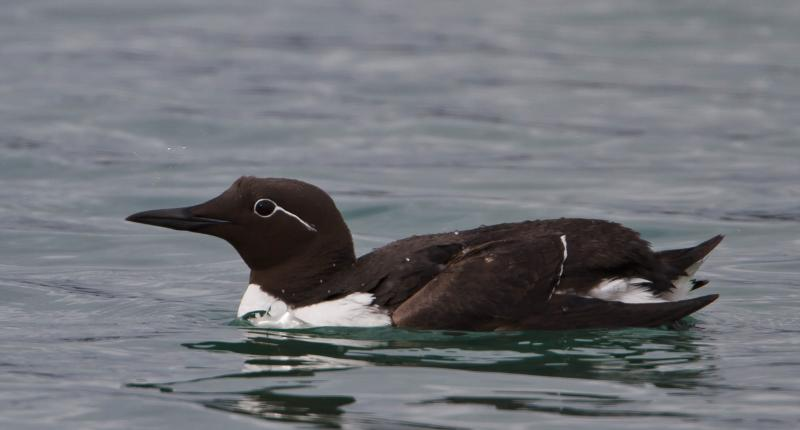 A Common Murre in Iceland.